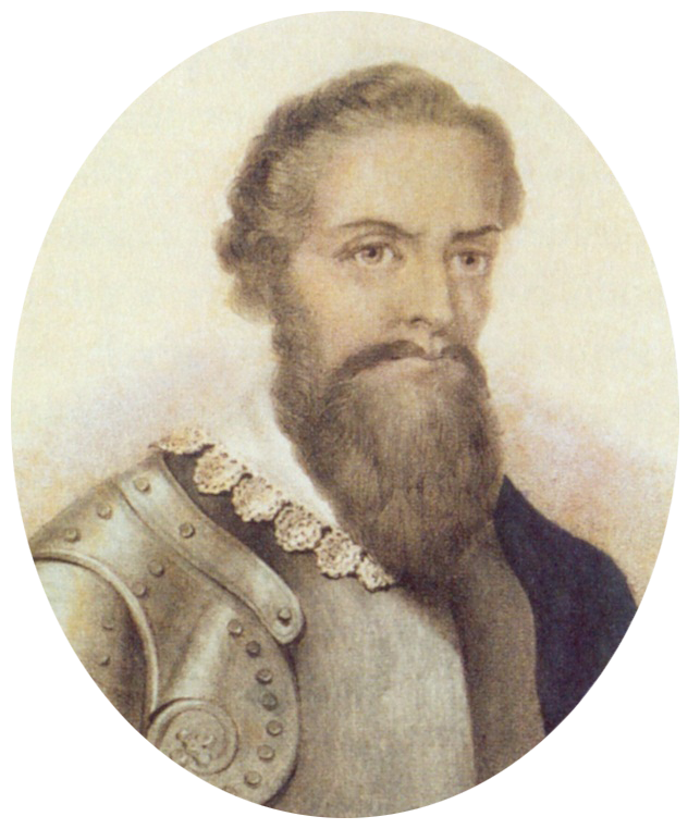 Lithography of Pedro Álvares Cabral, the Portuguese navigator who discovered Brazil in 1500.